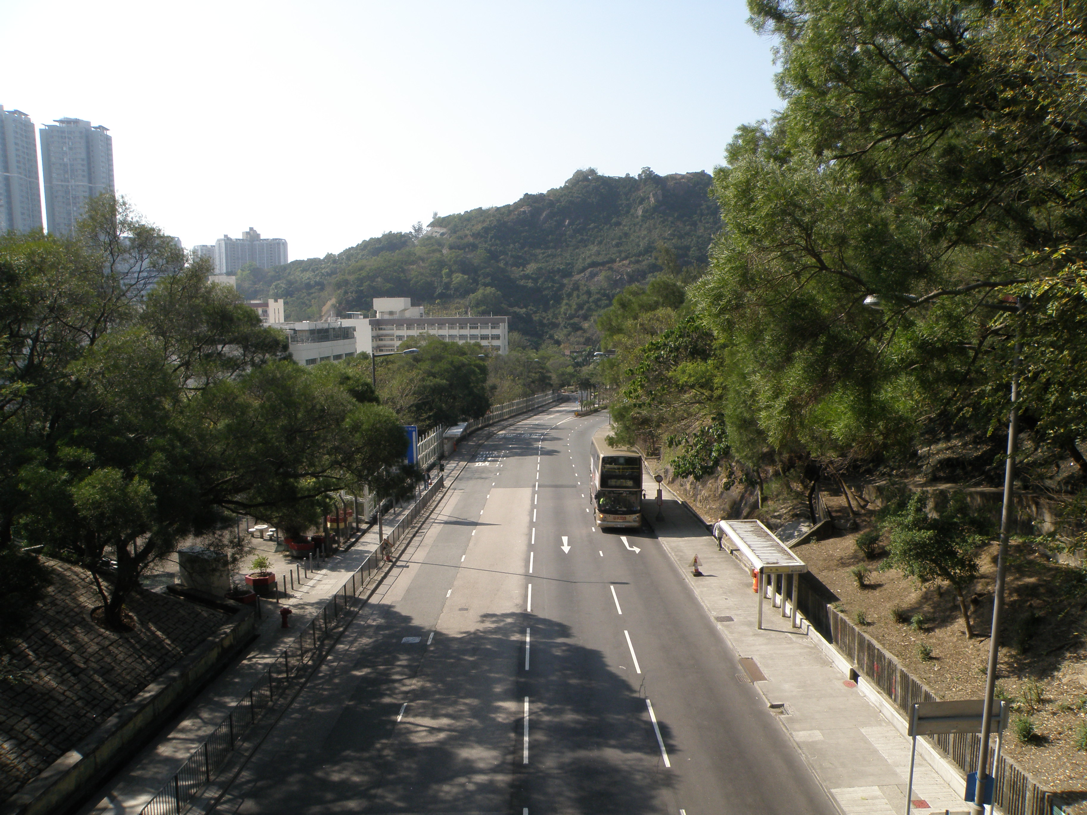 Sau Mau Ping Road in Sau Mau Ping, Hong Kong.